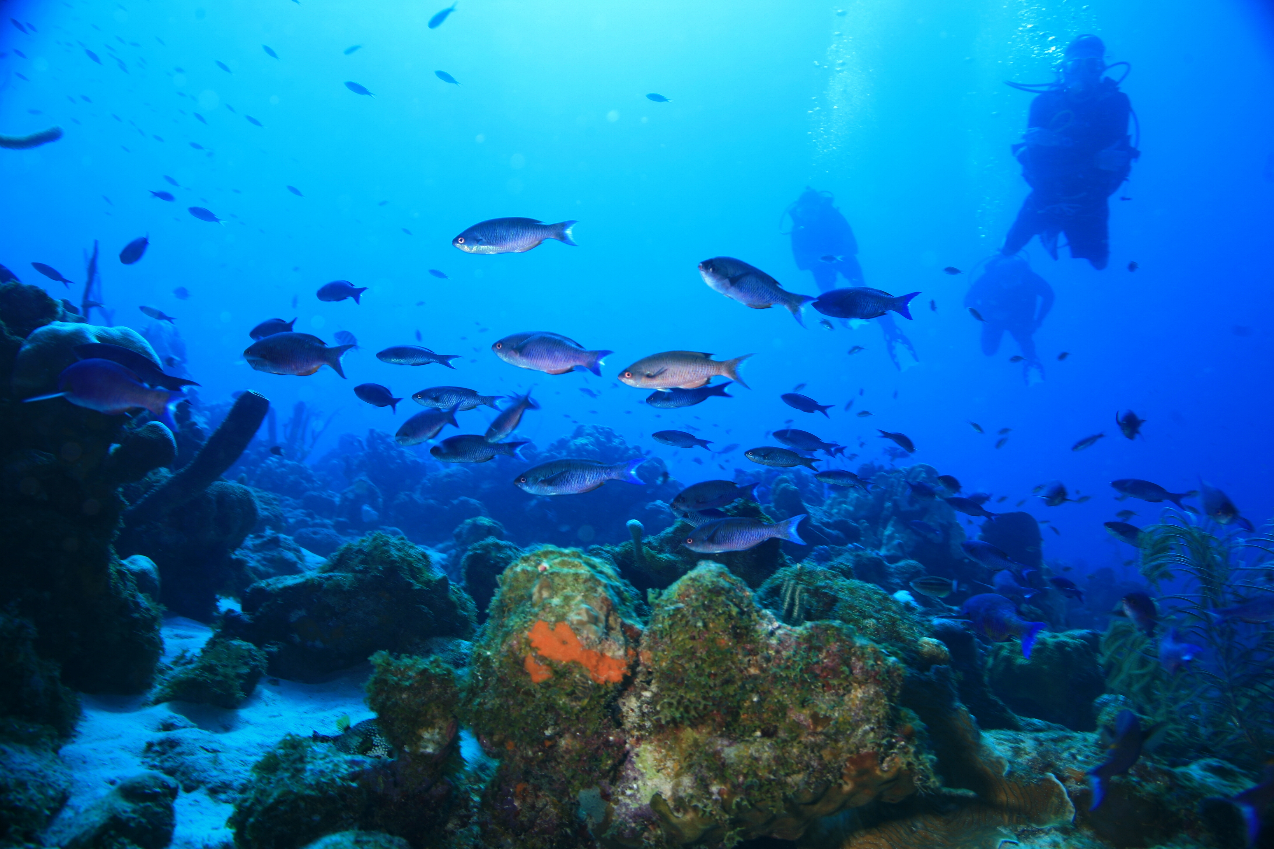 into a blue, undersea world. Divers approach from the hazy distance as a school of creole wrasse patrols the reef. Playa Lagun - Curaçao